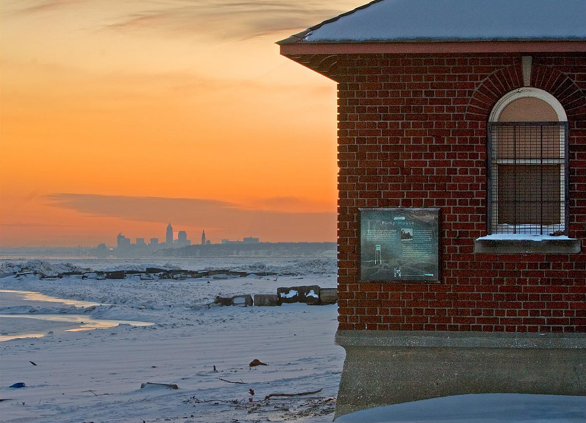 Huntington Beach in the winter. Bay Village, Ohio.